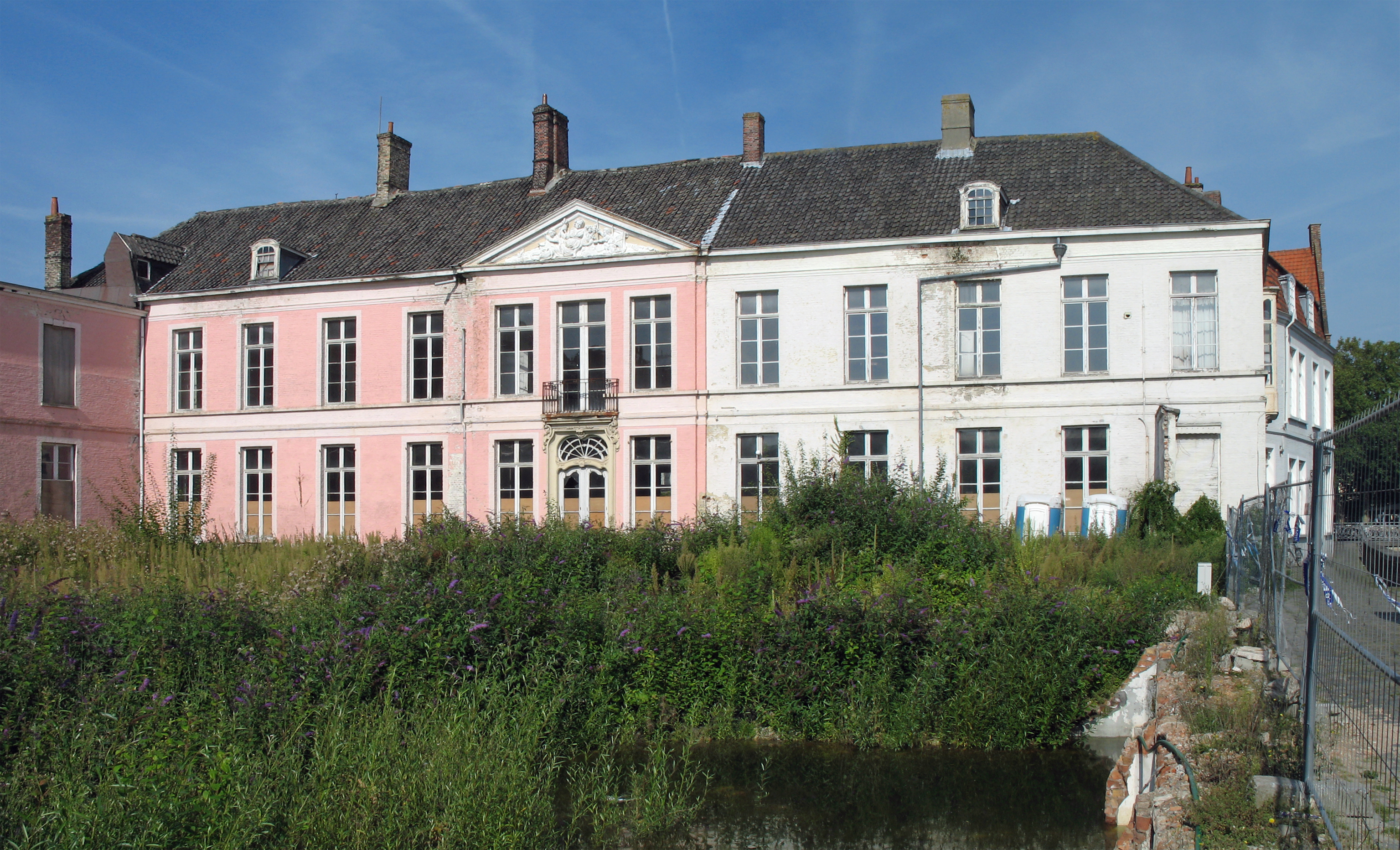 Bruges (Belgium): house d'Hanins de Moerkerke (Coupure / Witteleertouwersstraat)